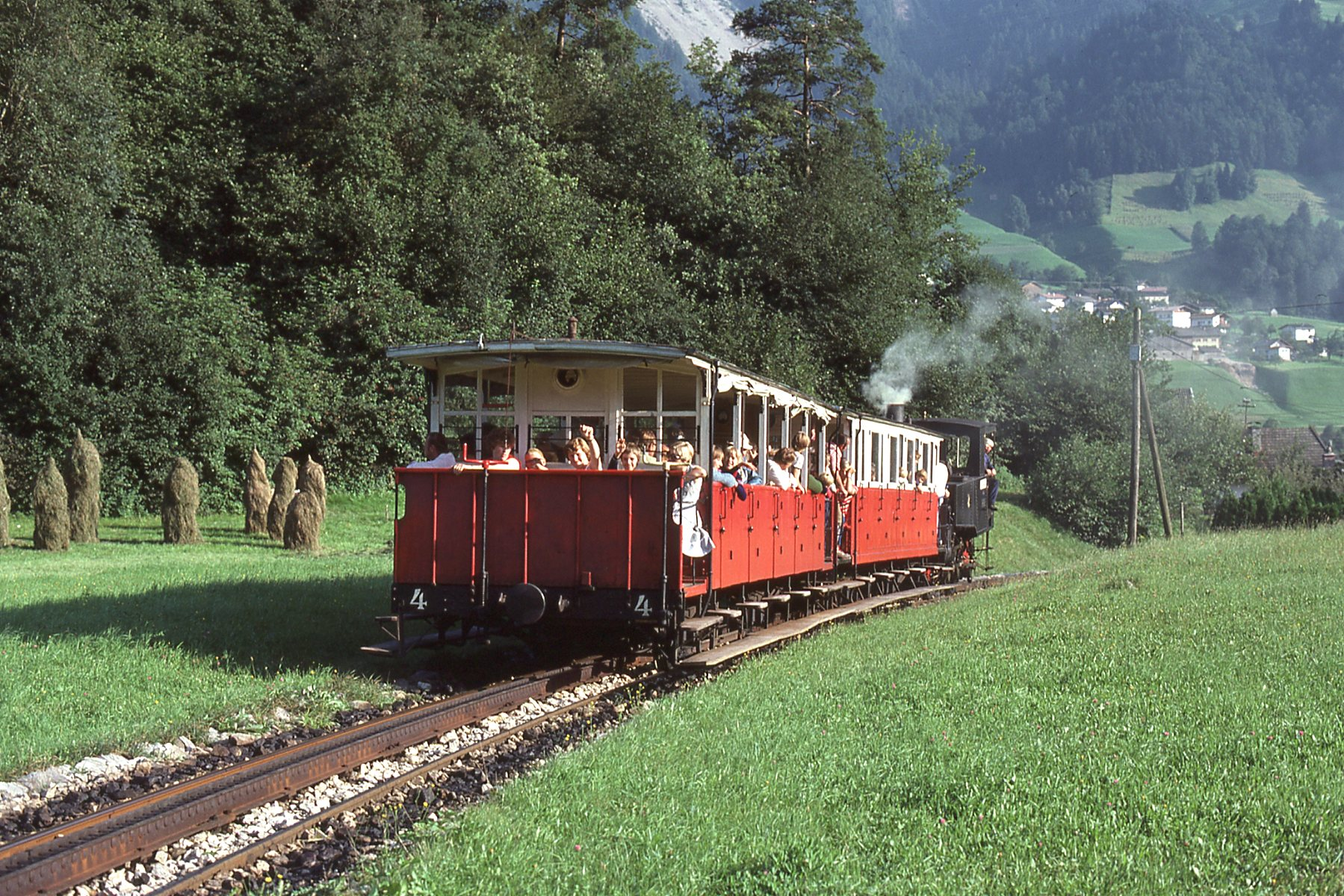 An Achenseebahn train above Jenbach.